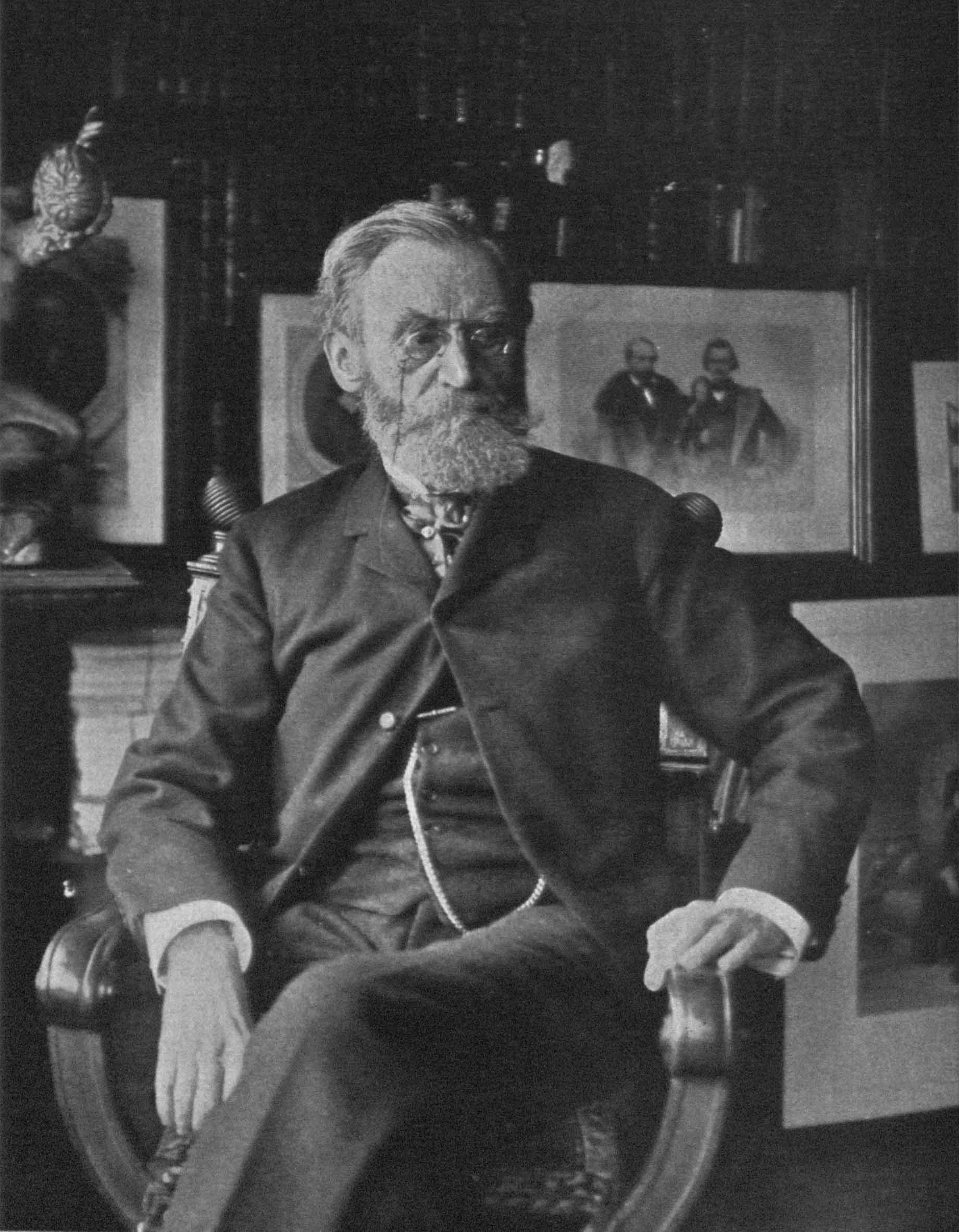 The last photograph of Carl Schurz